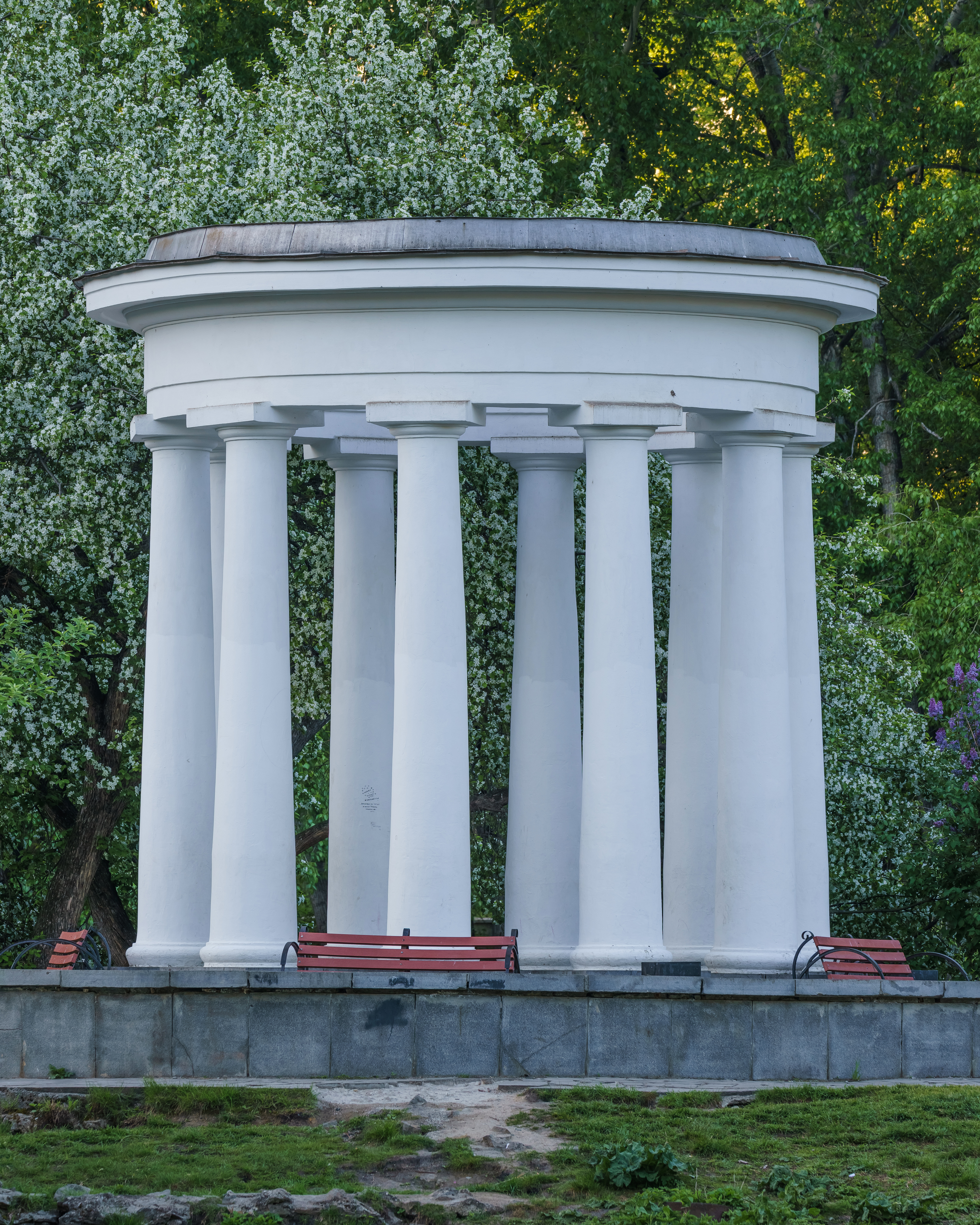 Kharitonov Garden in Ekaterinburg, Russia